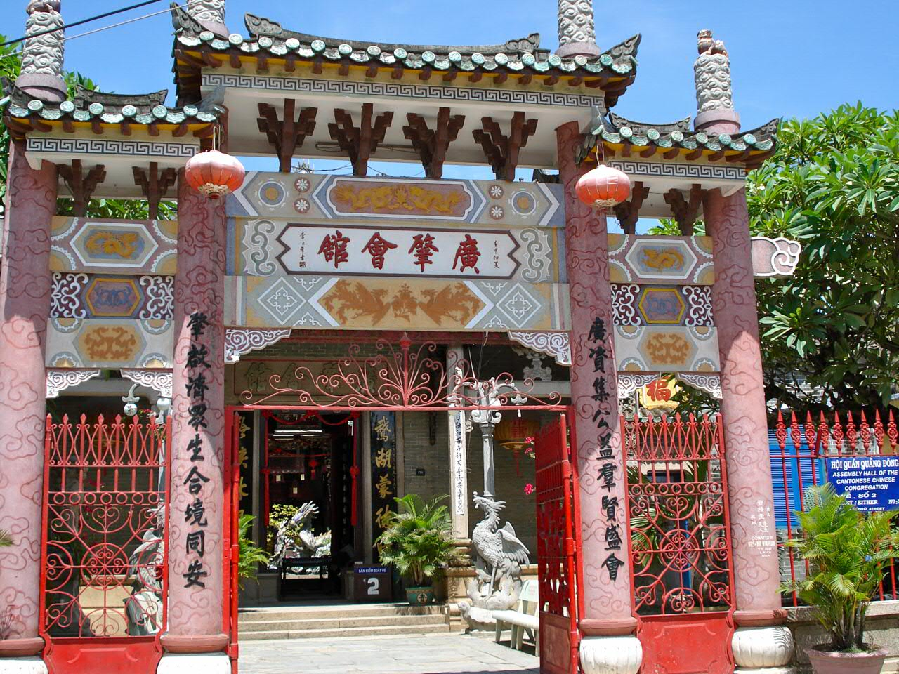 Hoi An - 2008